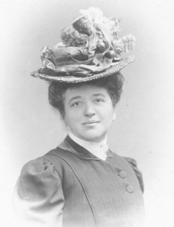 Eliza Osgood Vanderbilt Webb (1860-1936) was an American socialite and a member of the Vanderbilt family. She married William Seward Webb